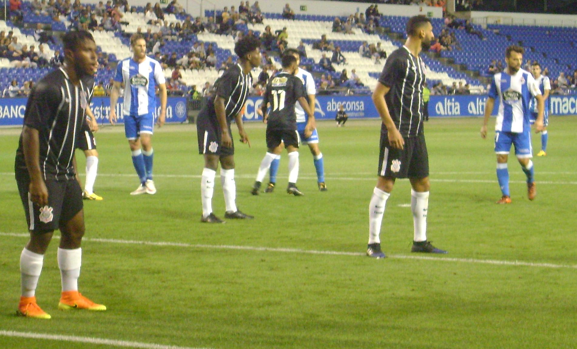 Deportivo La Coruña vs. Corinthians